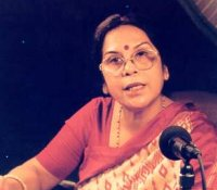 Bani Basu, Bengali writer photograph